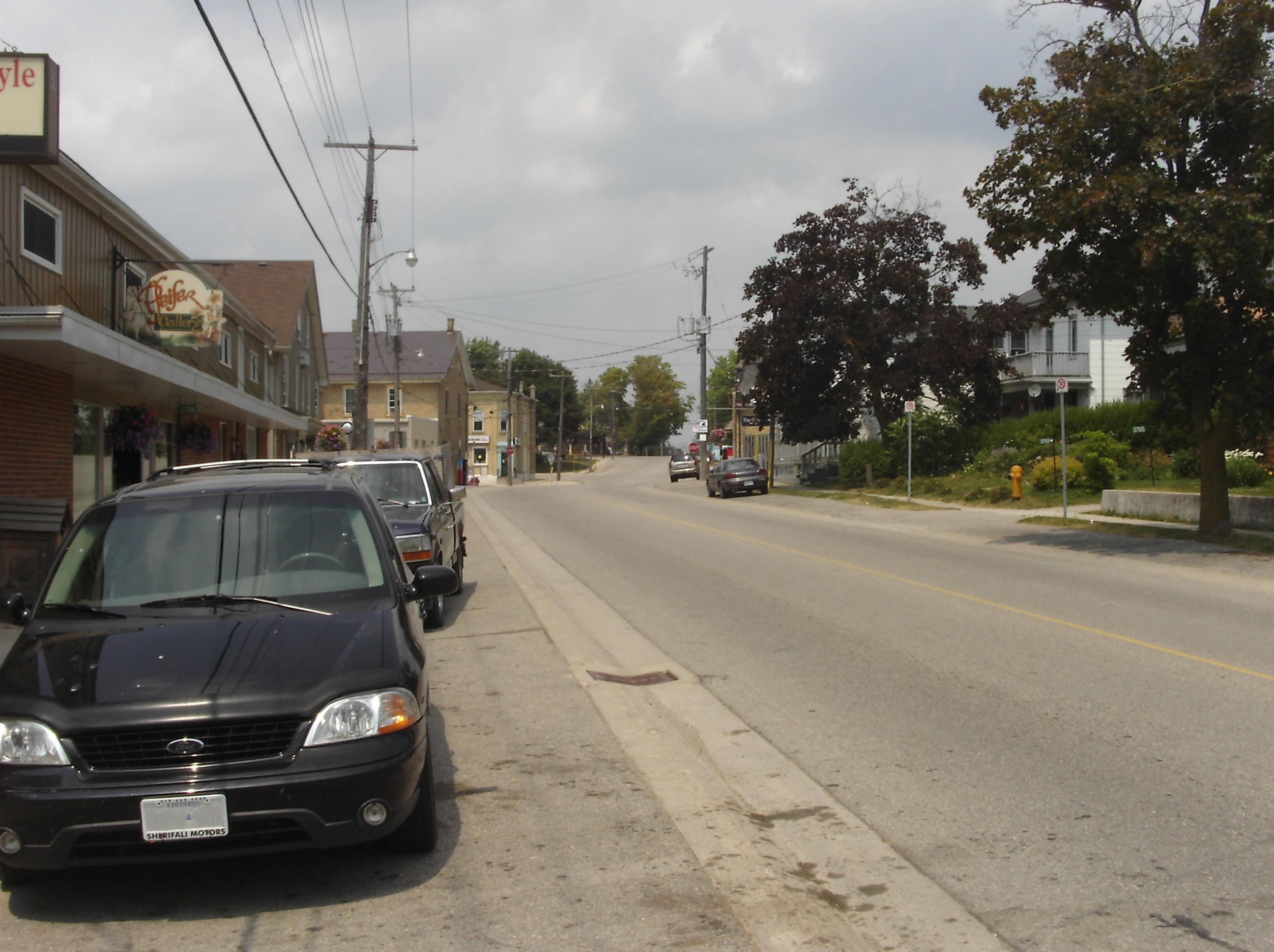 This is a photo looking a few degrees east of true north half-way down Nafziger Rd. in Wellesley.